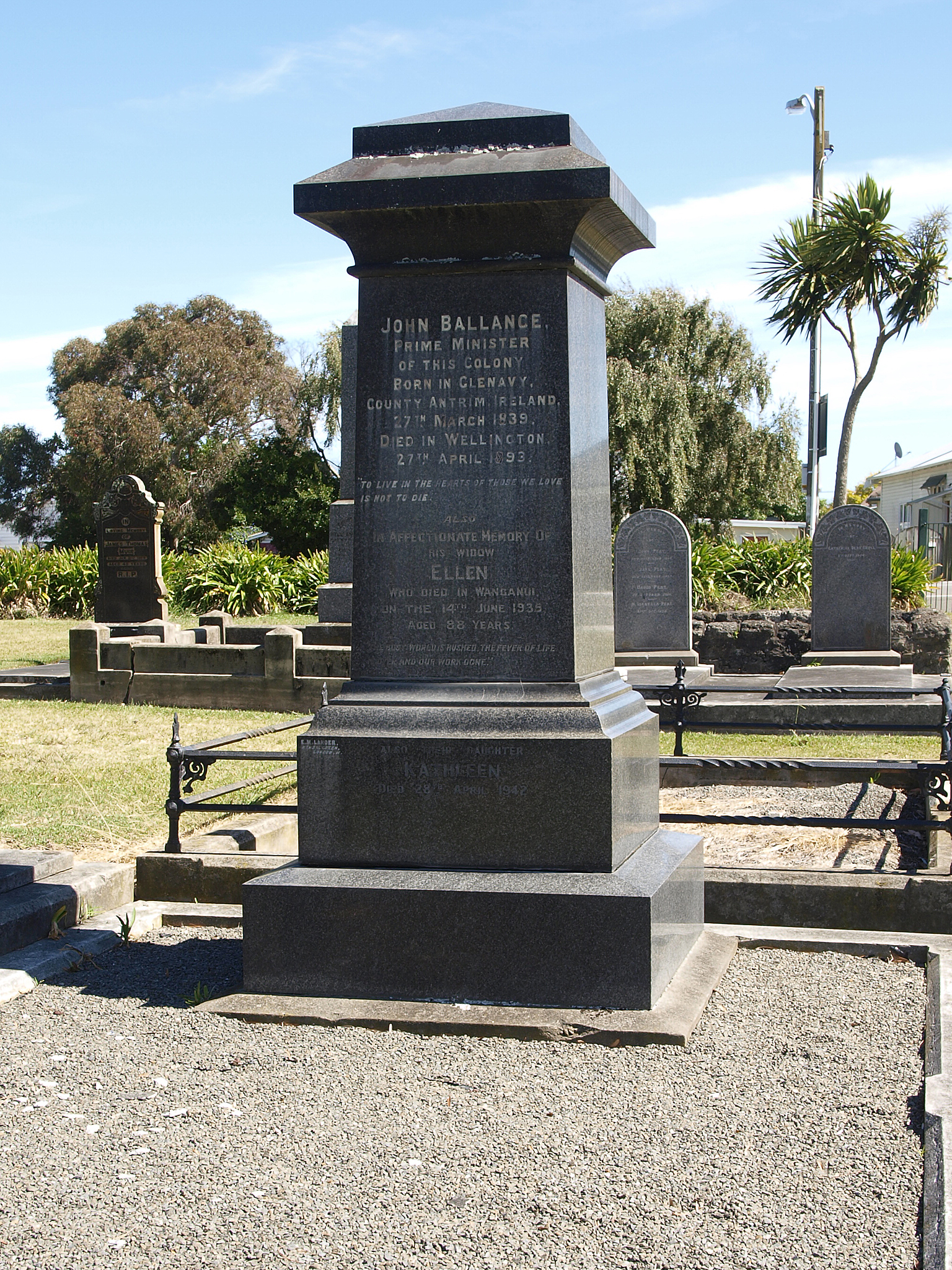 John Ballance, Gravestone, Whanganui, New Zealand